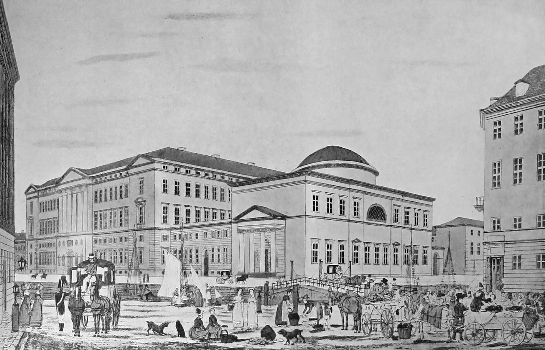 The second Christiansborg Palace before it was ruined by a fire in 1884